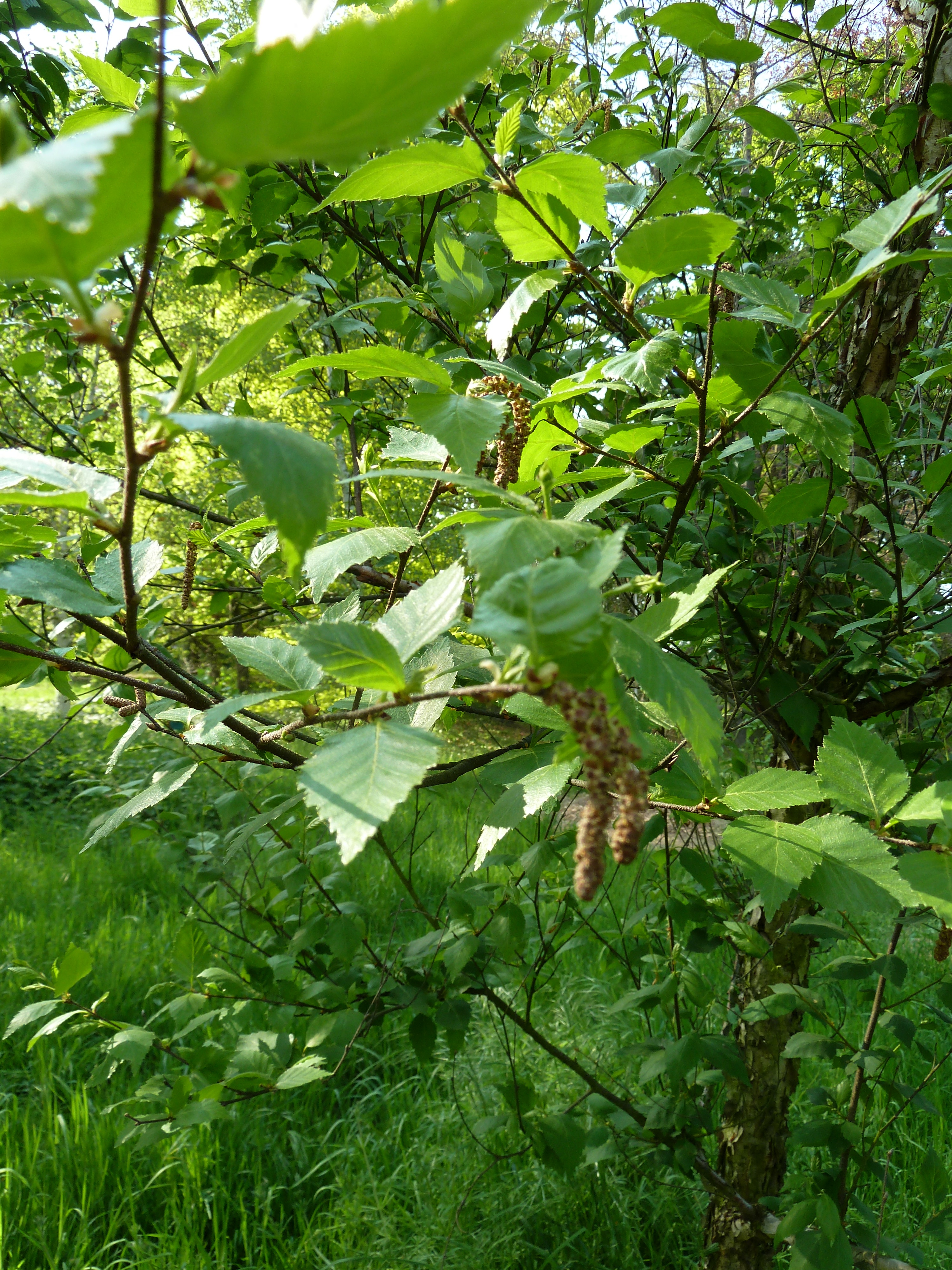 Betula davurica in Arboretum de l'école du Breuil (Paris, France)